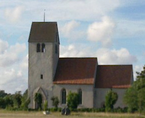 Church of Hamra, Gotland, SE